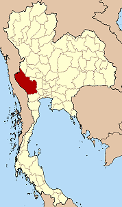 Map of Thailand highlighting Kanchanaburi province